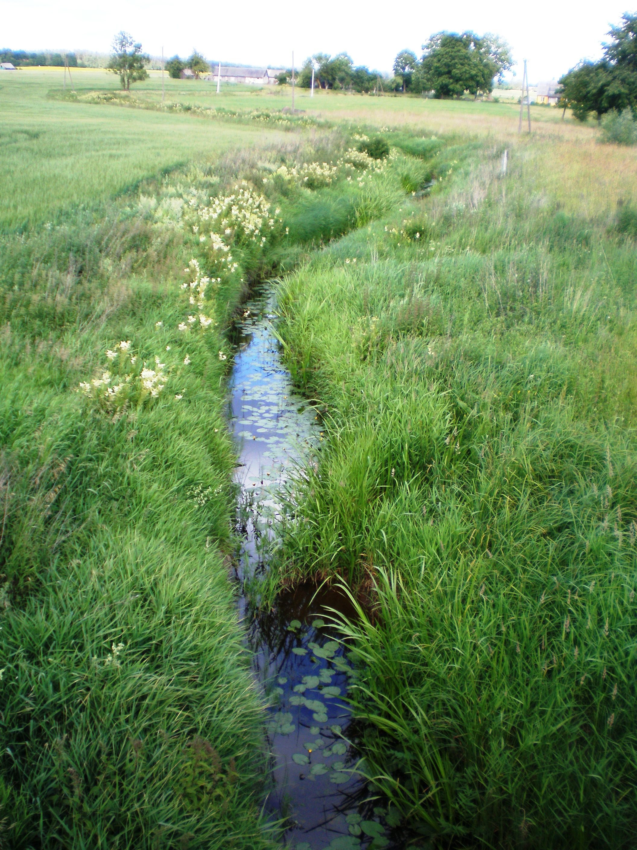 Upper course of Įstras River